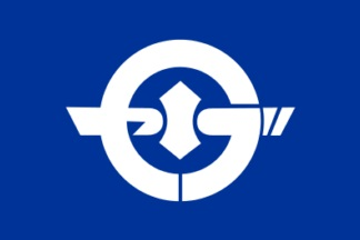 Flag of Obuse Nagano